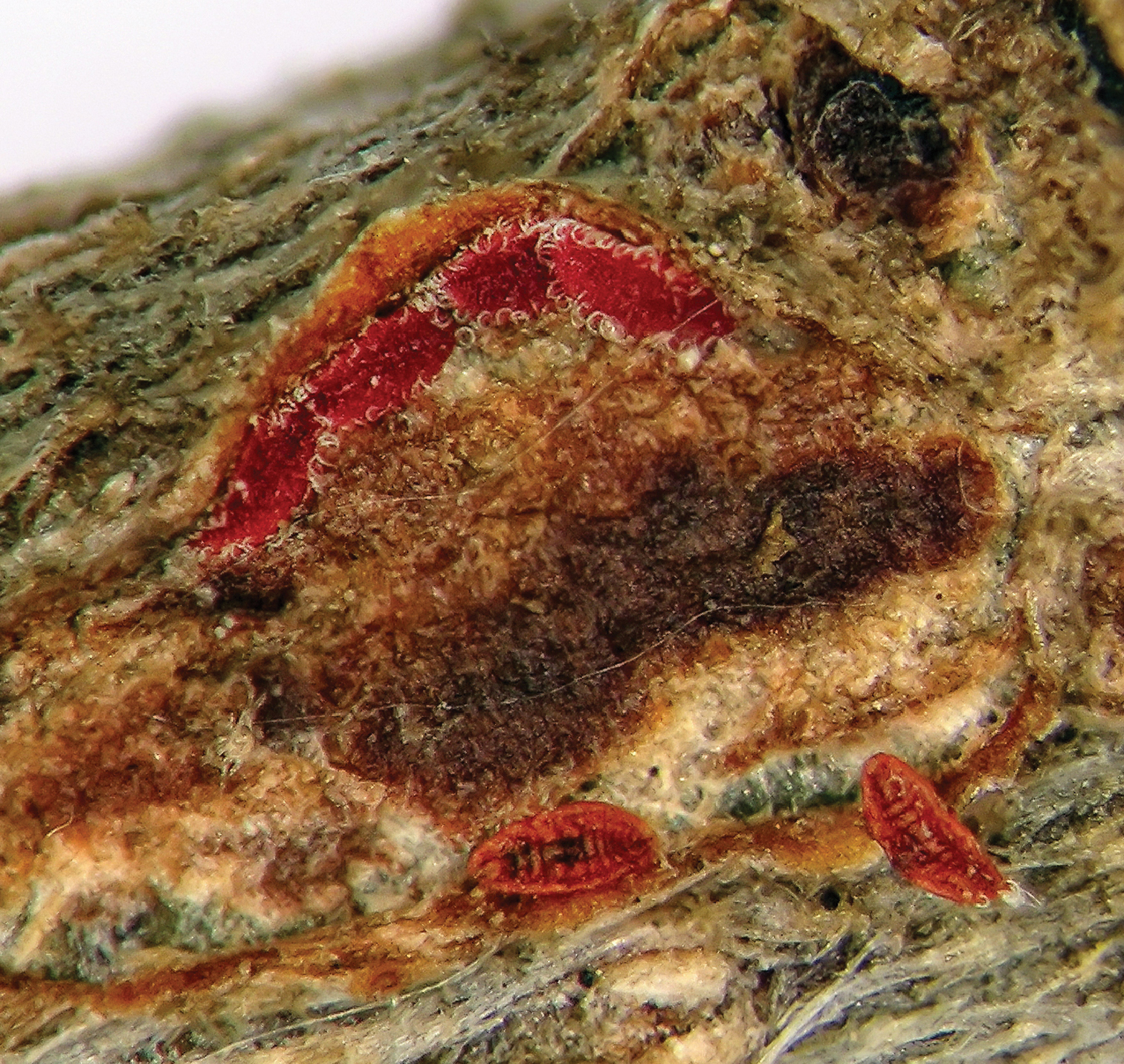 Kermes echinatus Balachowsky first-instar nymph, general appearance.